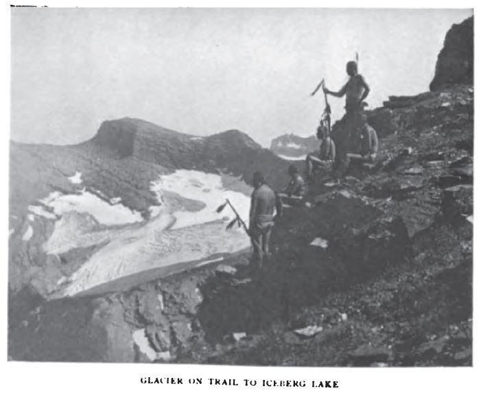 Illustrations of Blackfeet Indians in Glacier National Park from Schultz, James Willard (1916) Blackfeet Tales of Glacier National Park, Boston: Houghton, Mifflin & Co.